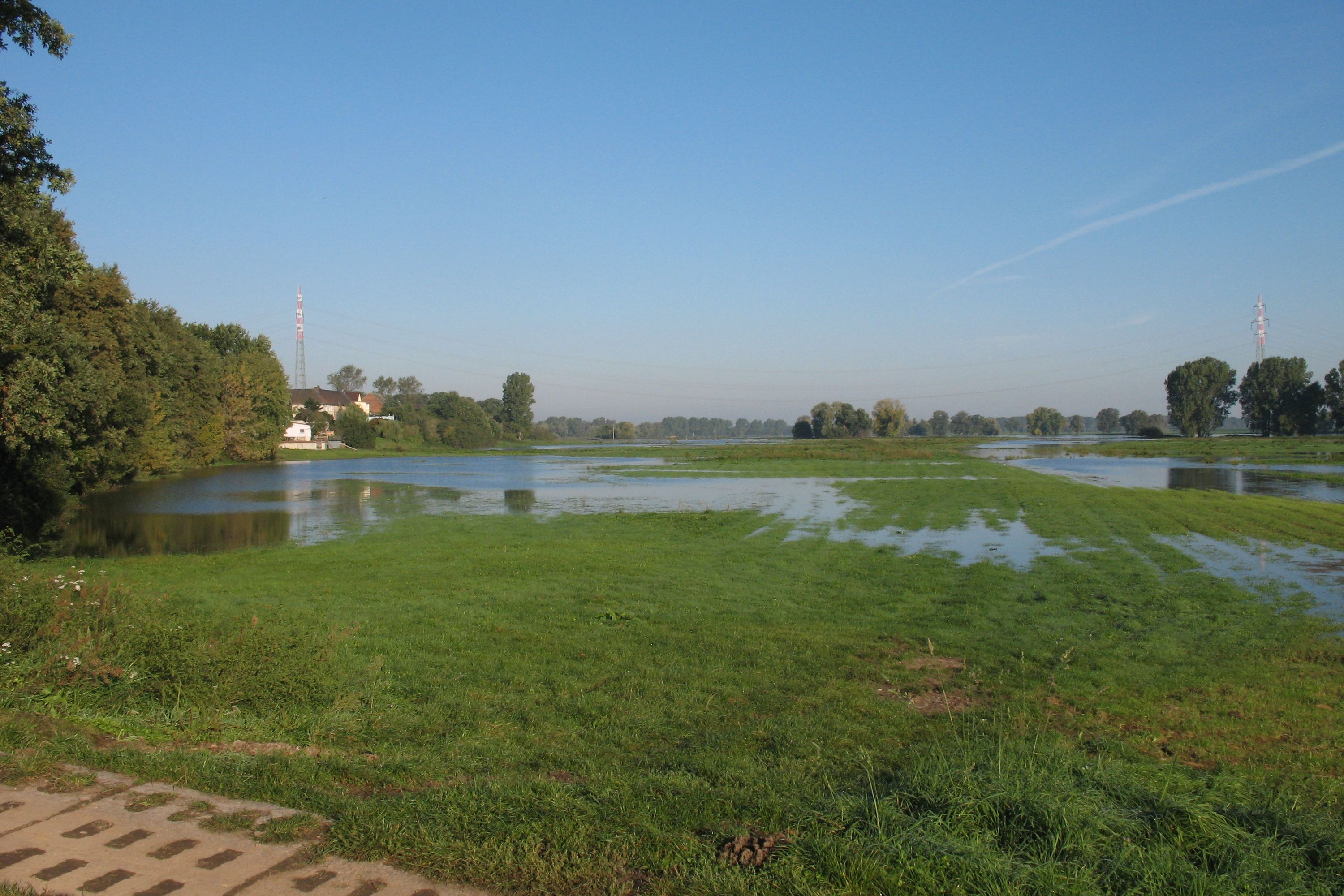 Dommitzsch-Wörblitz in Saxony, Germany